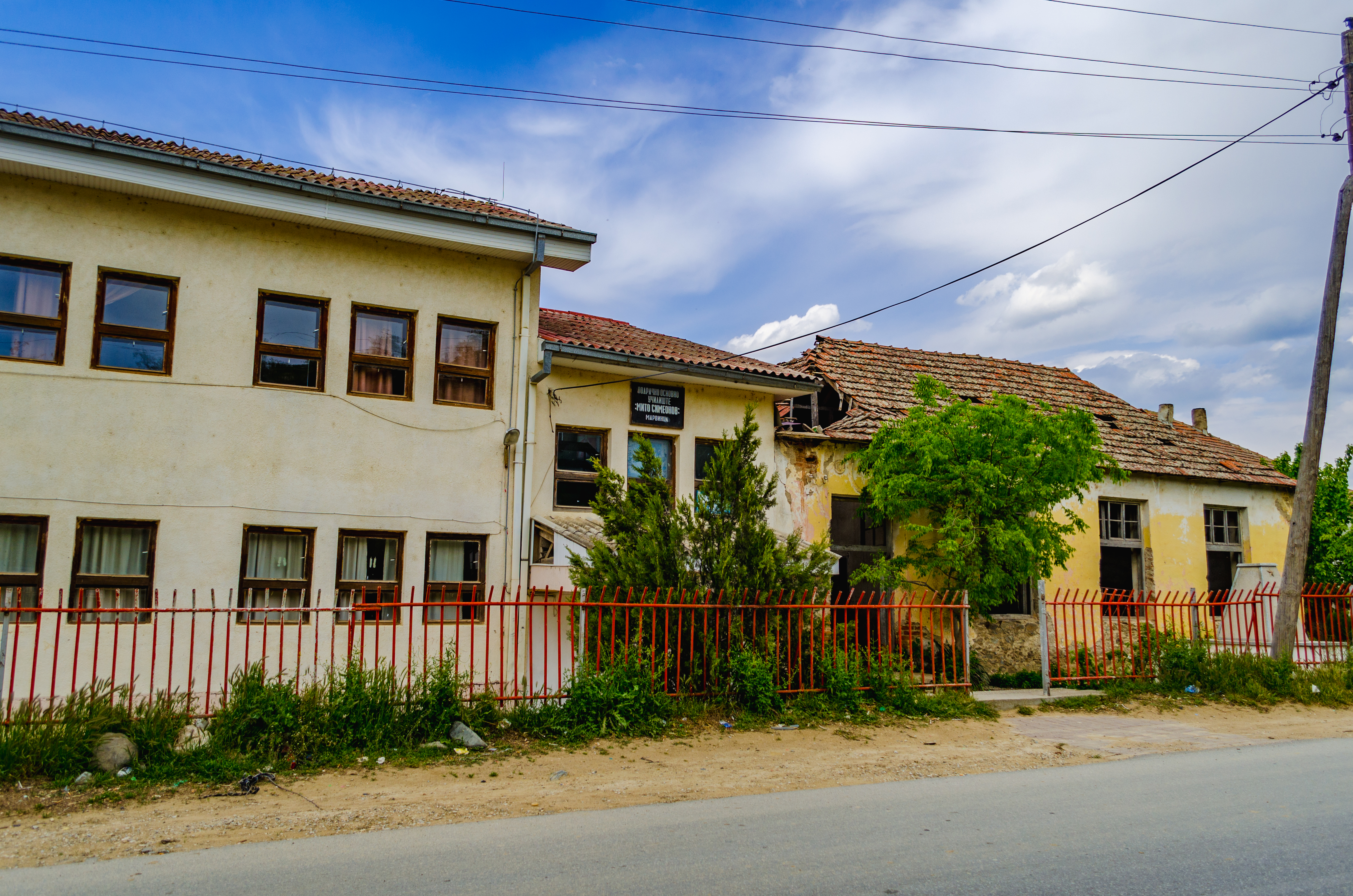 Primary school in the village Marvinci